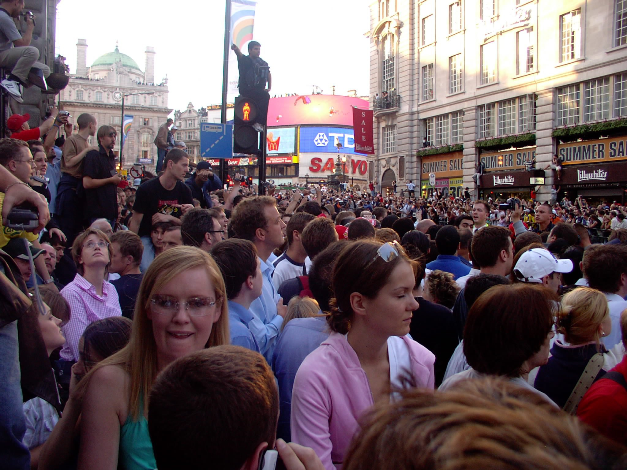 Looking towards a packed Piccadilly Circus from Lower Regent Street, where some of the 500,000 people were crowded for the Formula One parade.